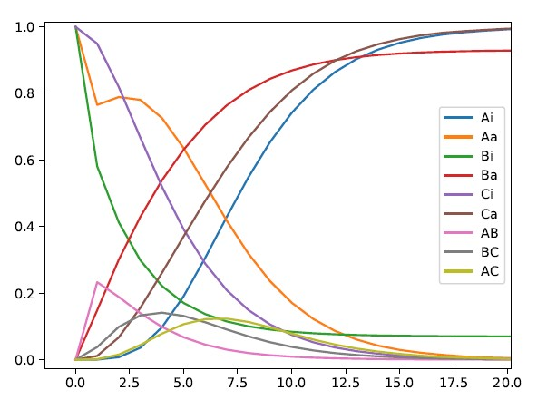 This is linked to the figure called Toy Biological Model in which is the plot for the differential equations.